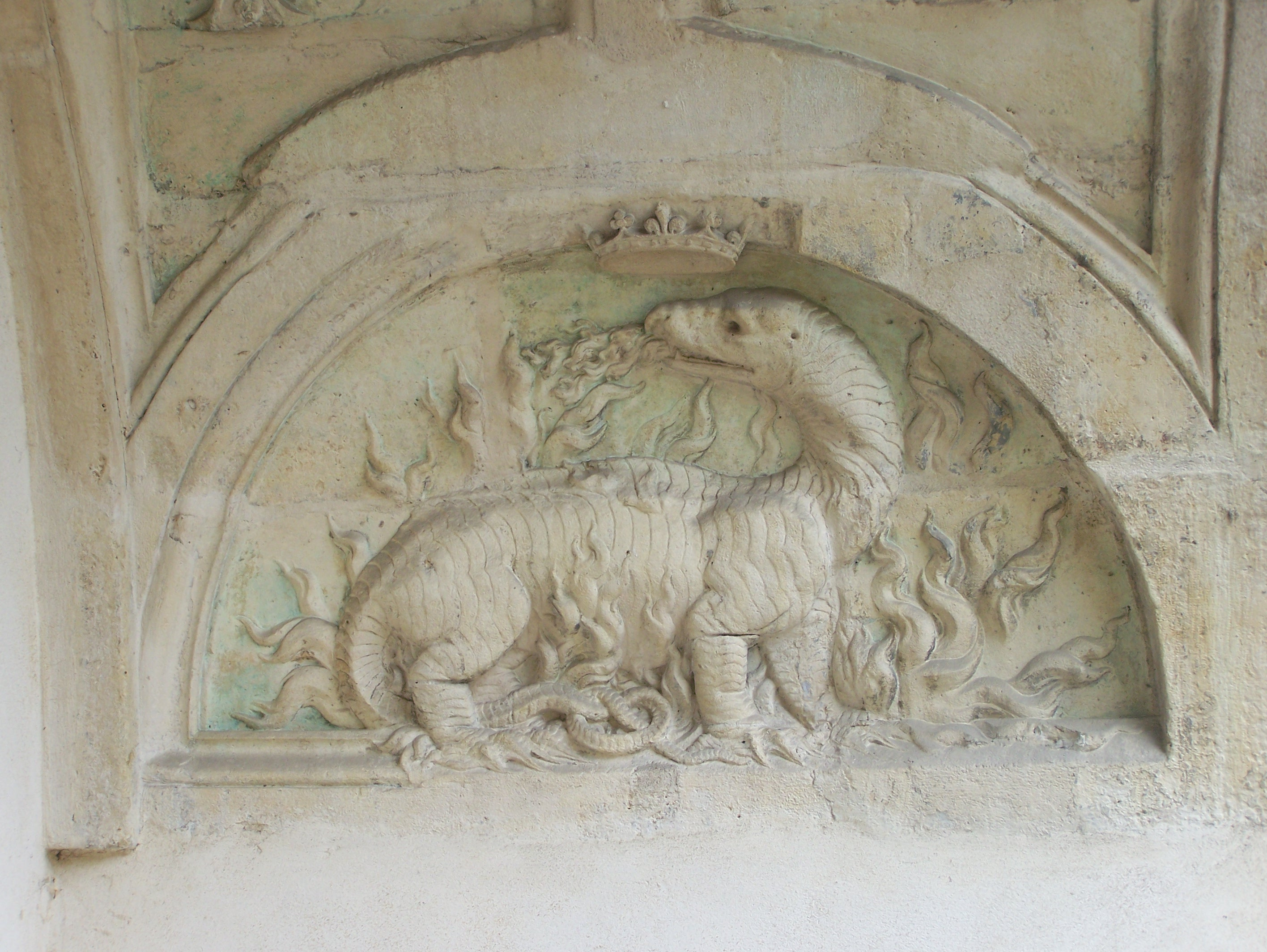 Square Léopold-Achille (Parc royal), rue du Parc-royal, Paris. Sculpture